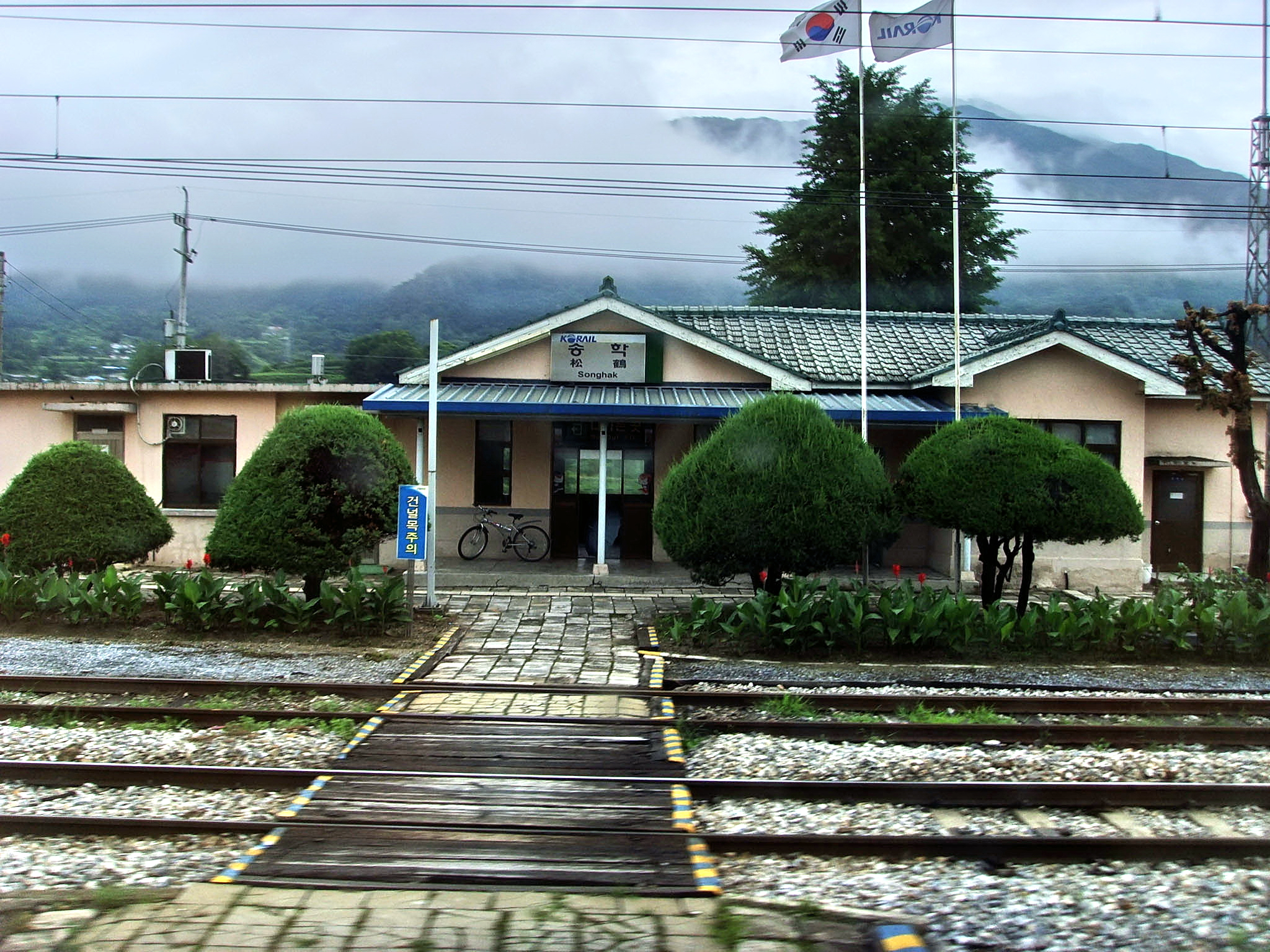 Taebaek Line Songhak Station